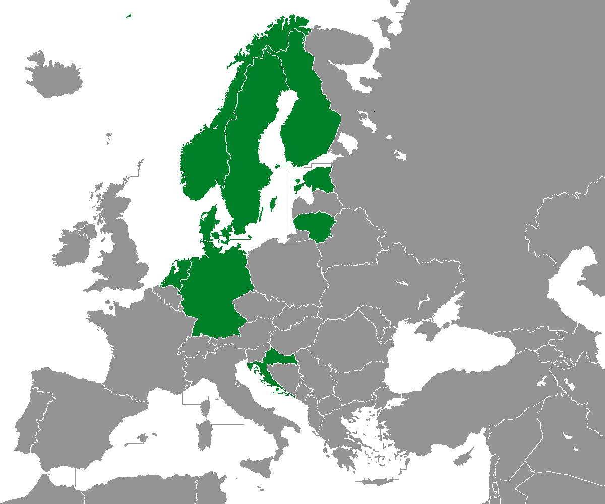 Map of container deposit legislation in Europe (2016/02/01 data)